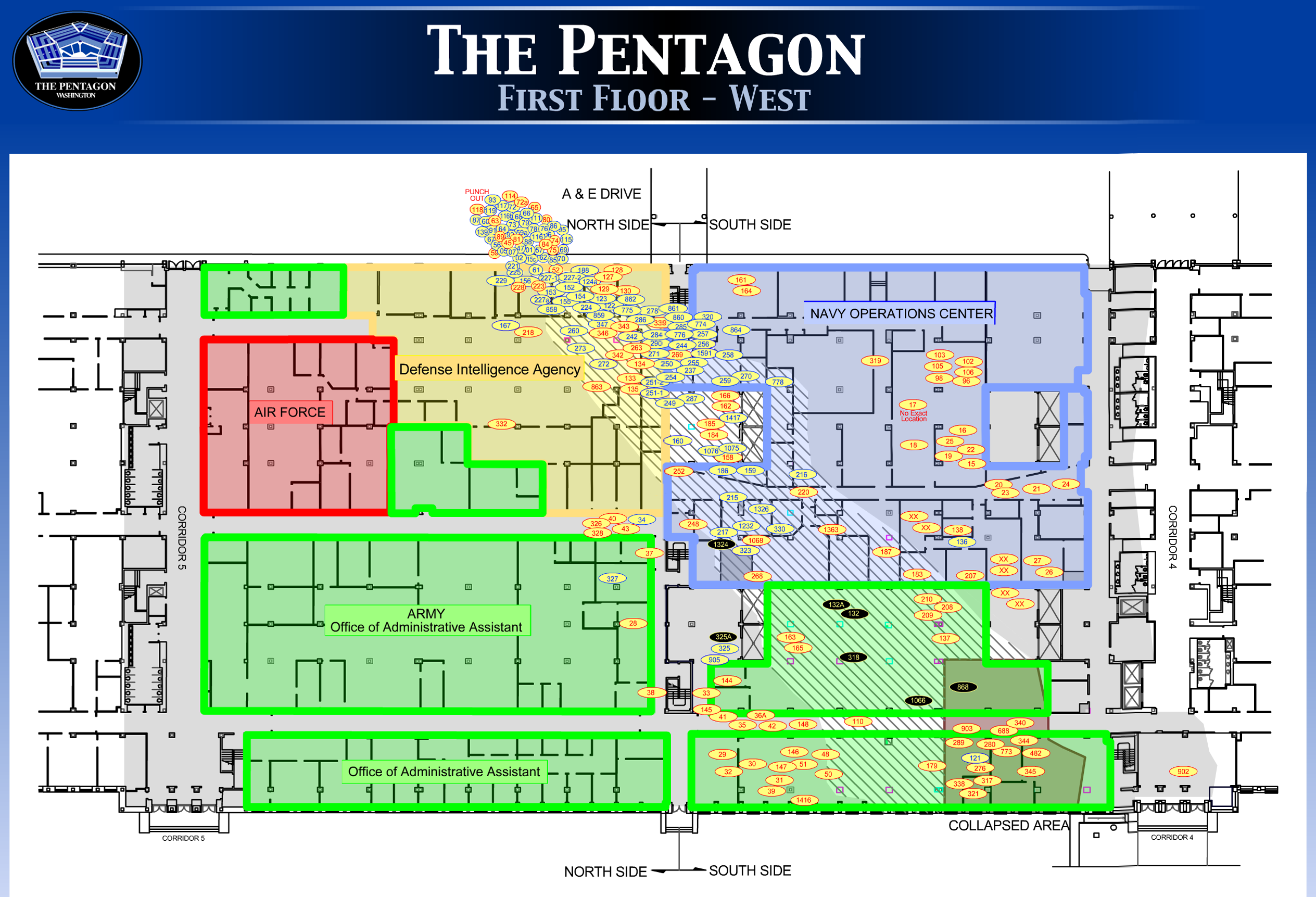 Screenshot of Flash Presentation depicting where body fragments were found on the first floor of the Pentagon after Flight 77 hit. This was used in the trial of Zacarias Moussaoui. Legend: Blue lettering are remains from Flight 77 passengers and crew, red lettering are remains from Pentagon staff, and black with yellow lettering are remains of the hijackers.